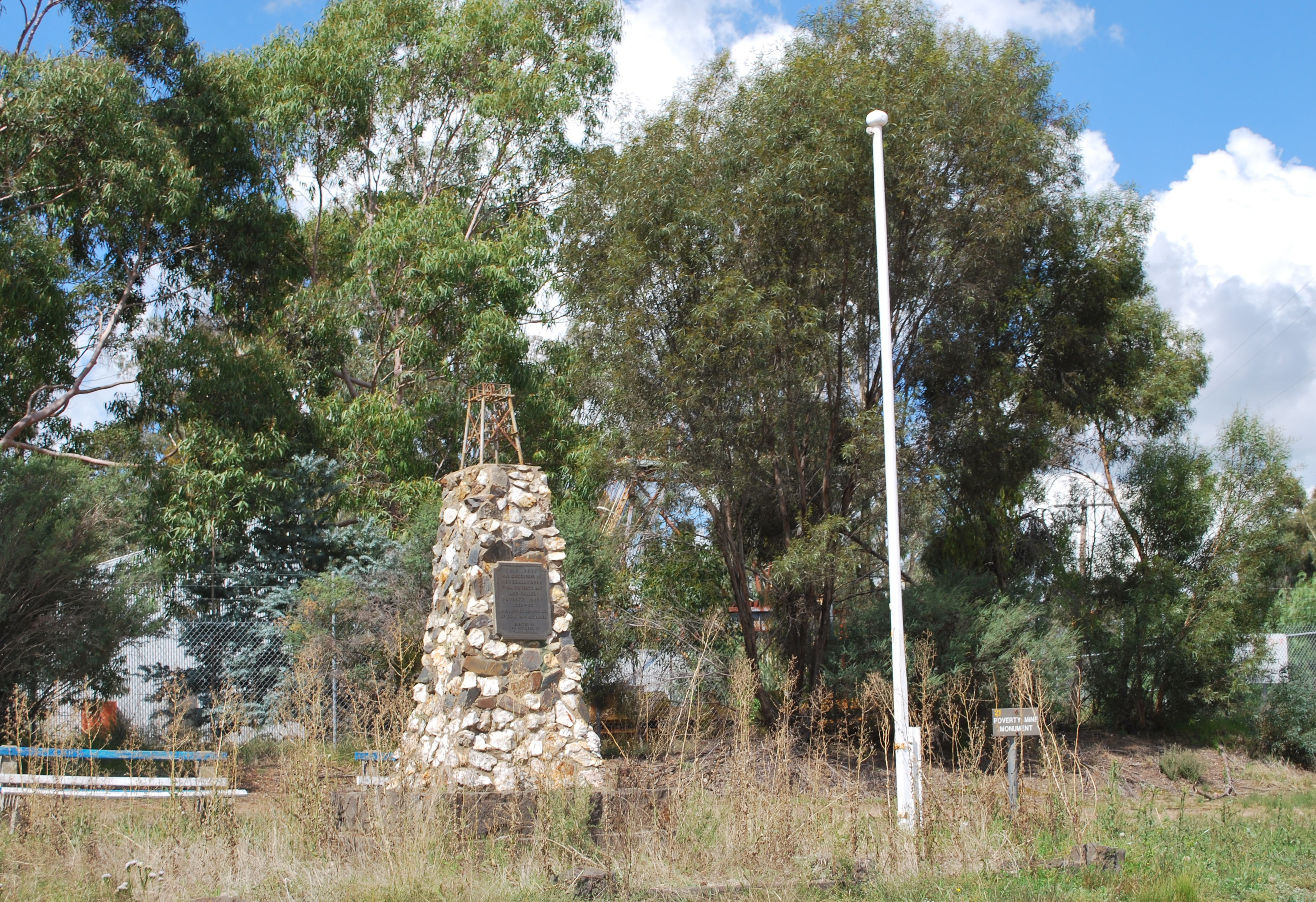 A moment commemorating the Poverty Mine at Tarnagulla, Victoria